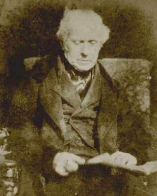 David Brewster 19th century photograph. public domain.